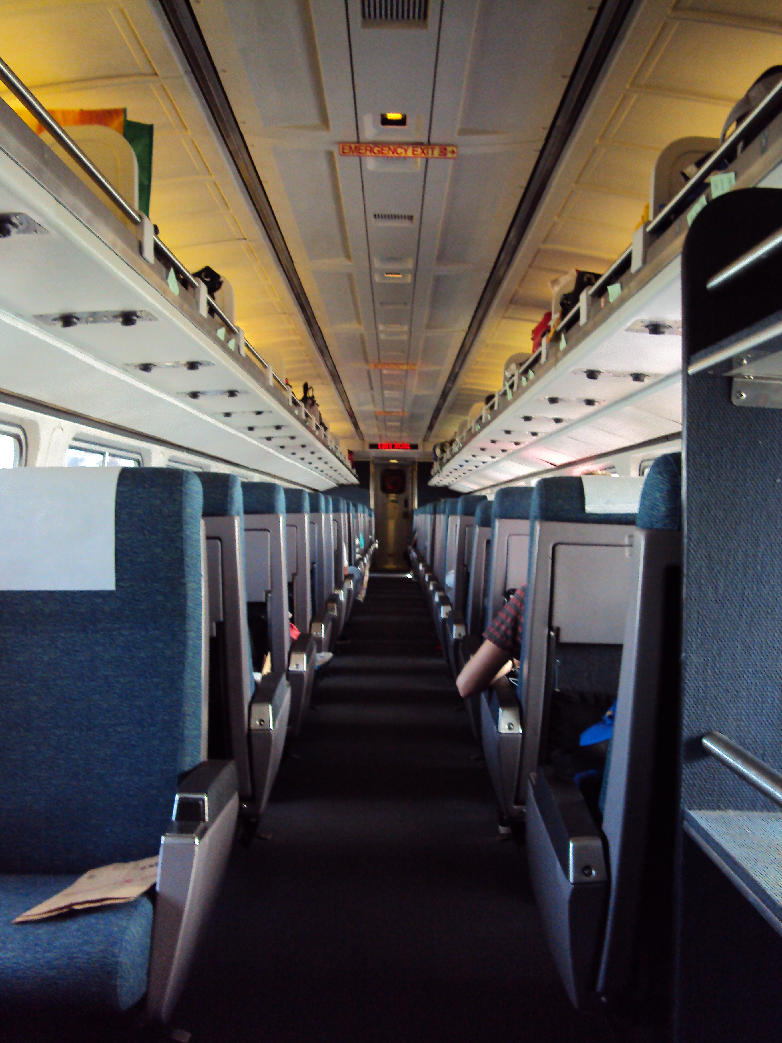 Amfleet passenger car interior